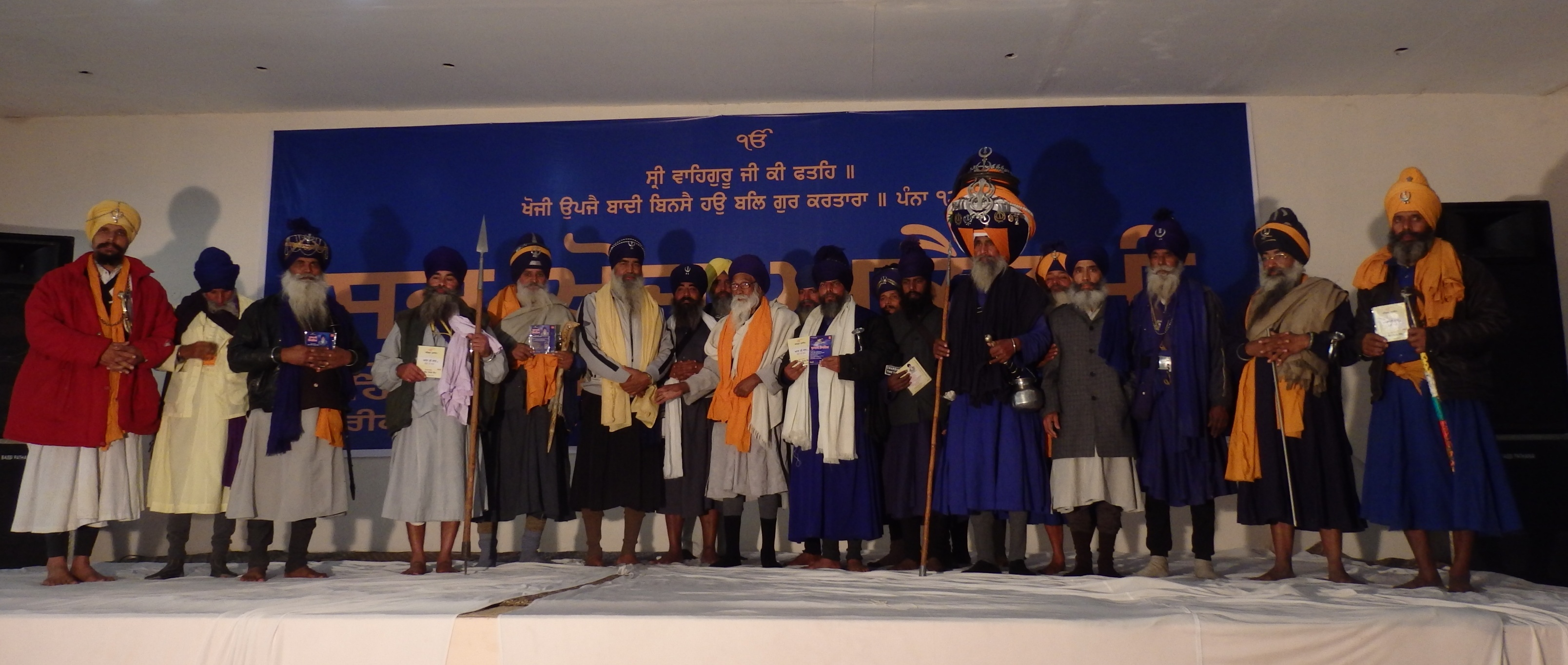 Dharam Singh Nihang Singh with Nihang Fauj at First Gurmati Sikharthee Sammelan - 2014 at Sirhind